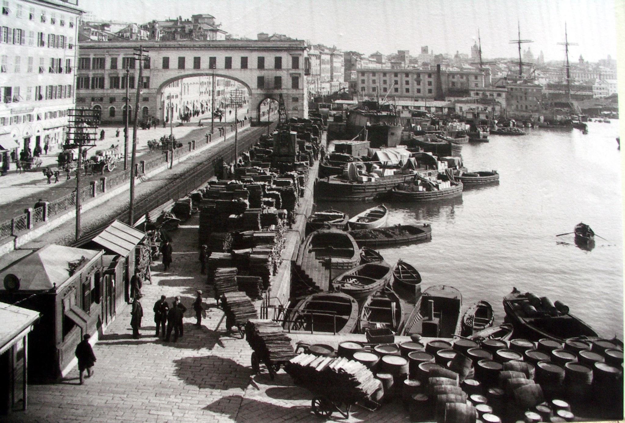 Ponte Reale a Genova